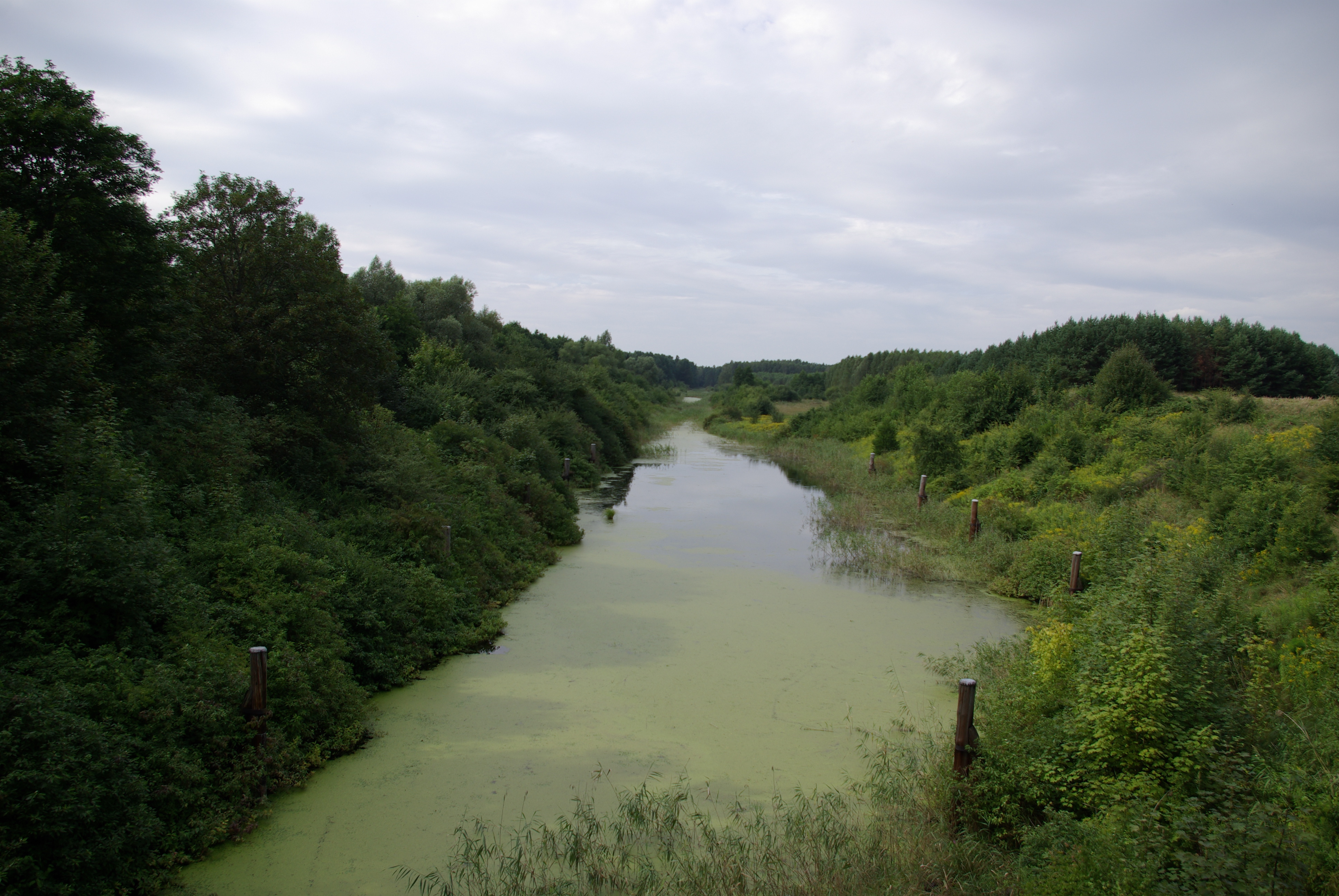 Masurian canal (Polish Kanał Mazurski), lock Sandhof (Polish Śluza Piaski) near Guja (Greater Great Guja) in the municipality of Węgorzewo (Angerburg)